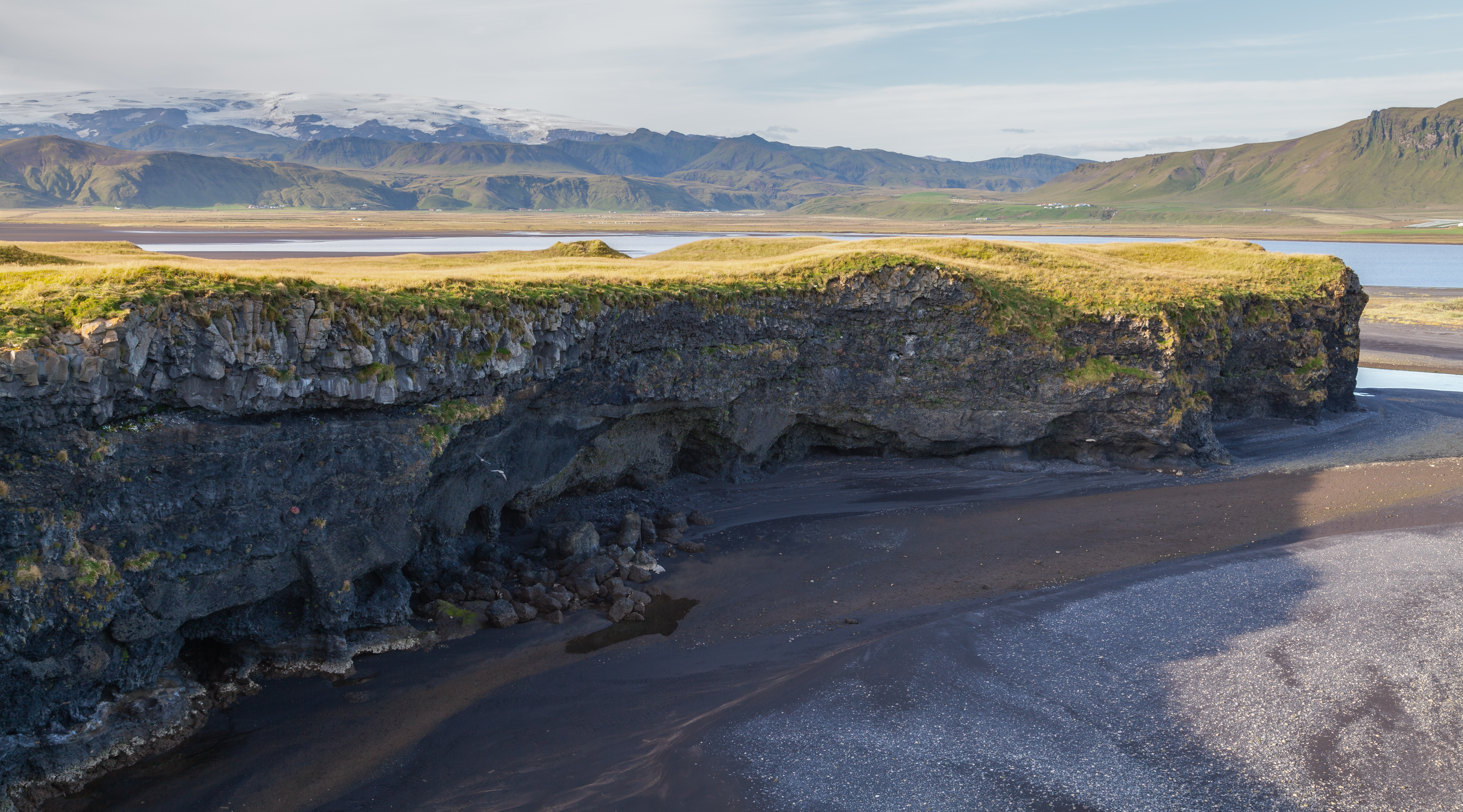 Reynisfjara, Suðurland, Iceland